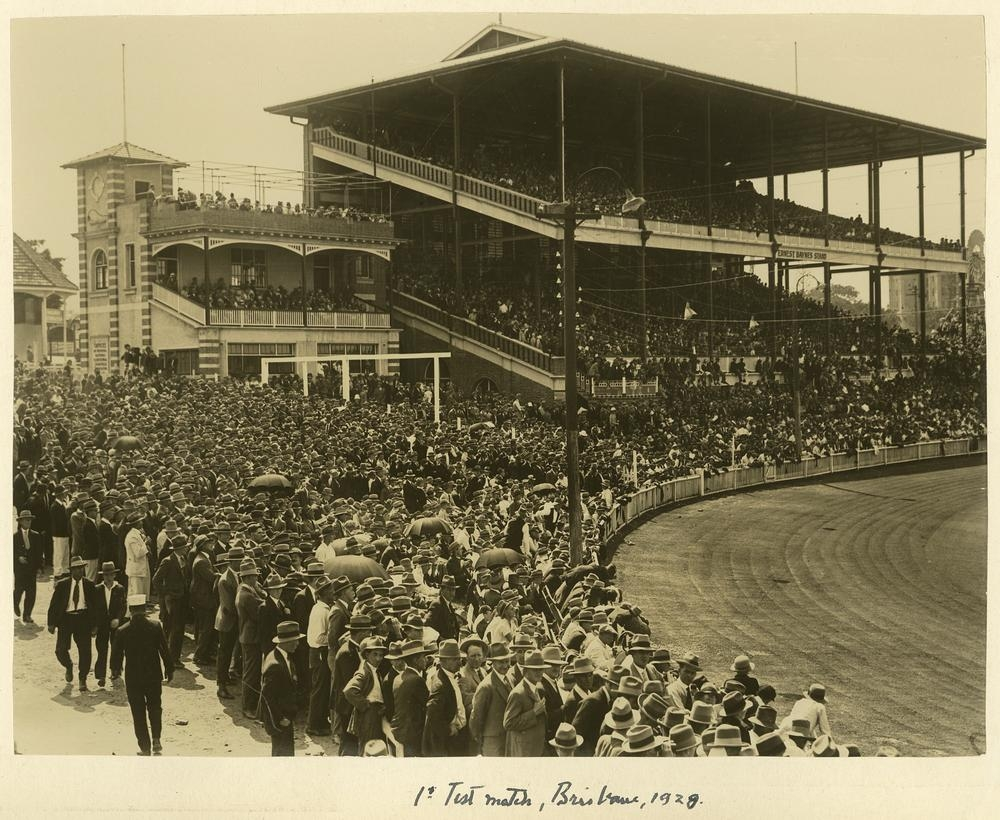 Creator: Unidentified. Location: Brisbane, Queensland. Description: Spectators fill the stands and grounds to watch the Test Cricket Match between England and Australia in Brisbane held in the R.N.A. Showgrounds. This image is part of the Sir John Goodwin Photograph Albums collection at State Library of Queensland. Collection reference 7166, Album: APU-17. View this image at the State Library of Queensland: Information about State Library of Queensland’s collection: You are free to use this image without permission. Please attribute State Library of Queensland.